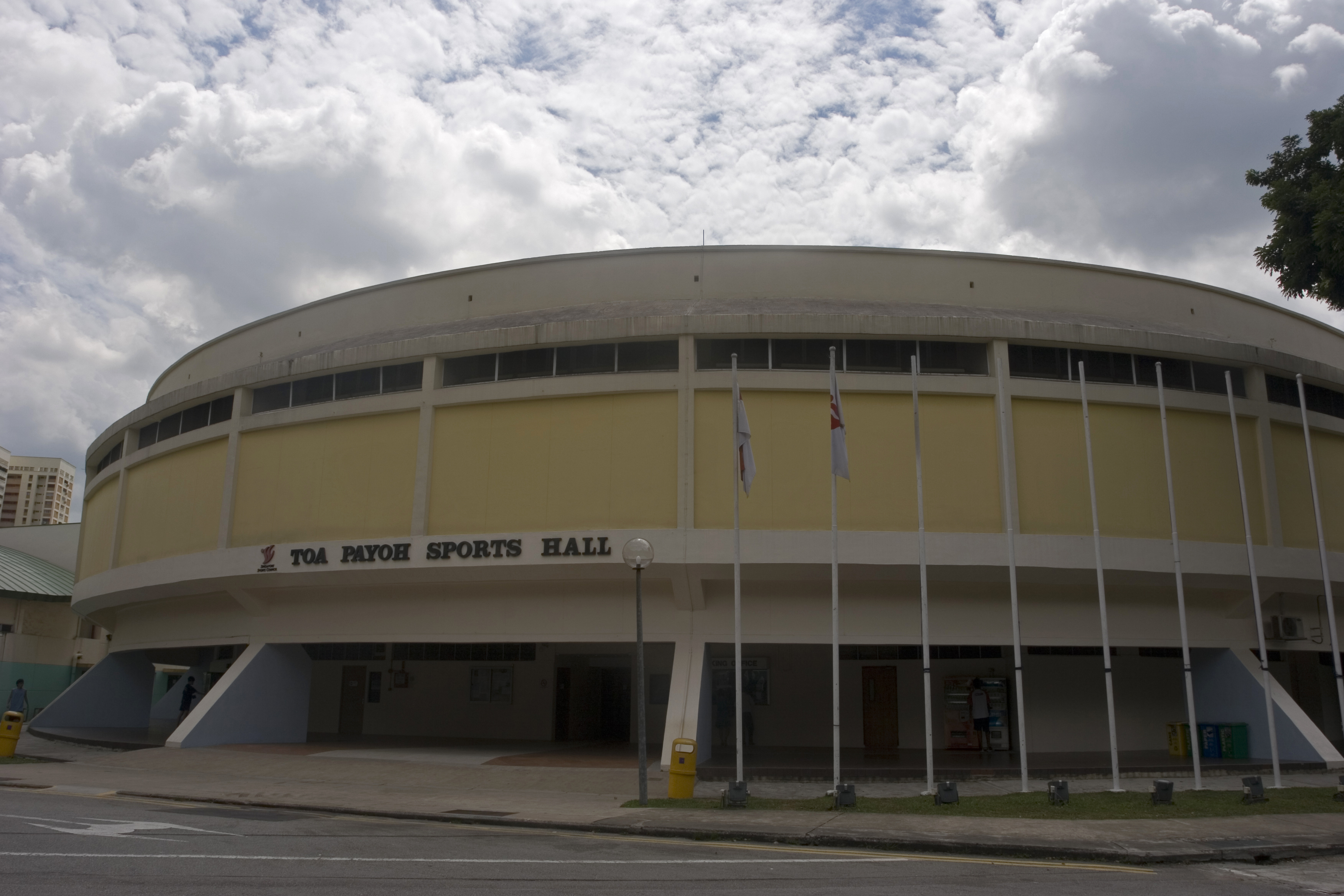 Toa Payoh Sports Hall in Toa Payoh (Singapore)